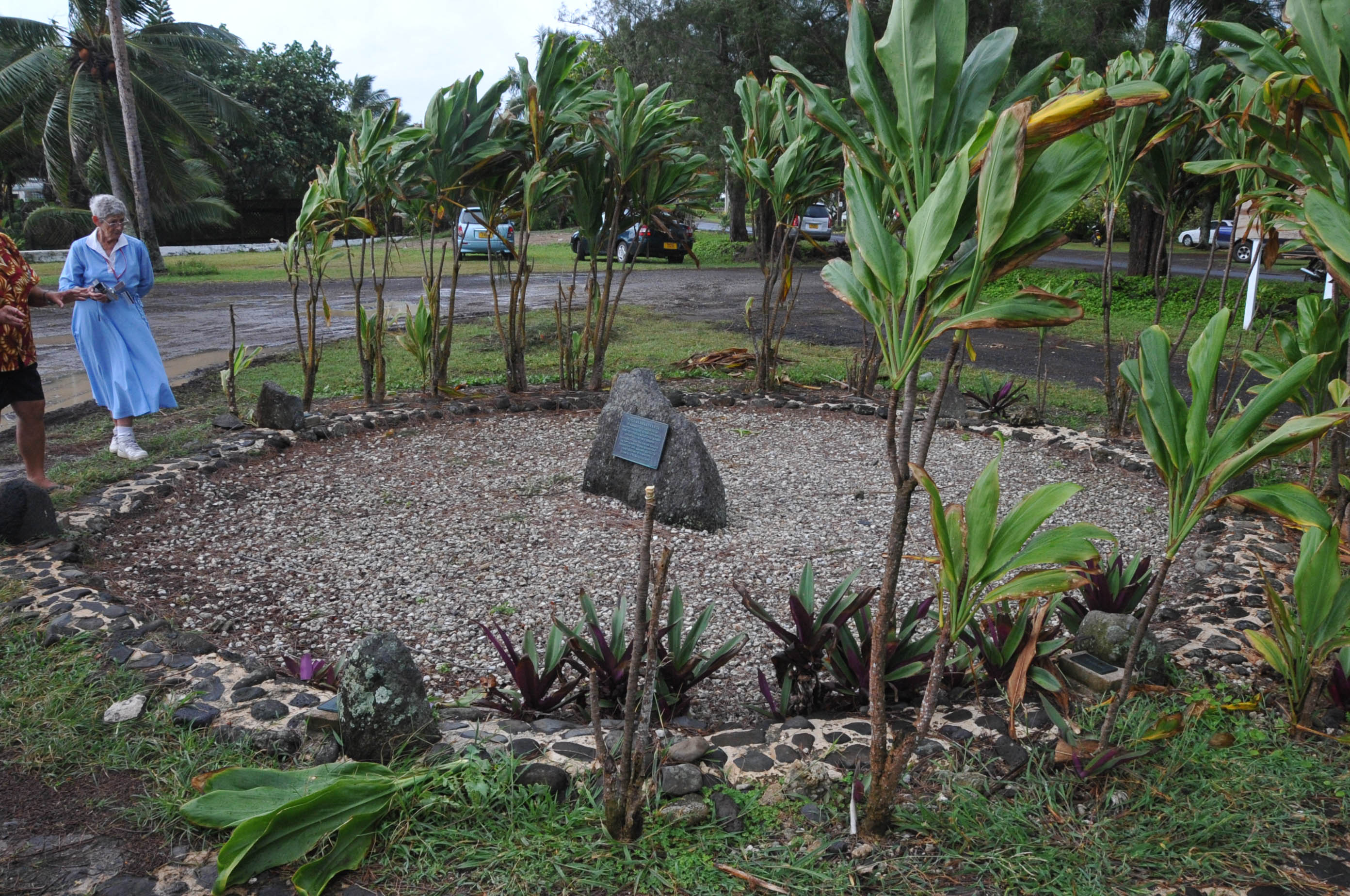 STONE CIRCLE COMMEMORATES THE COOK ISLANDERS WHO LEFT OCOLONIES NEW ZEALAND